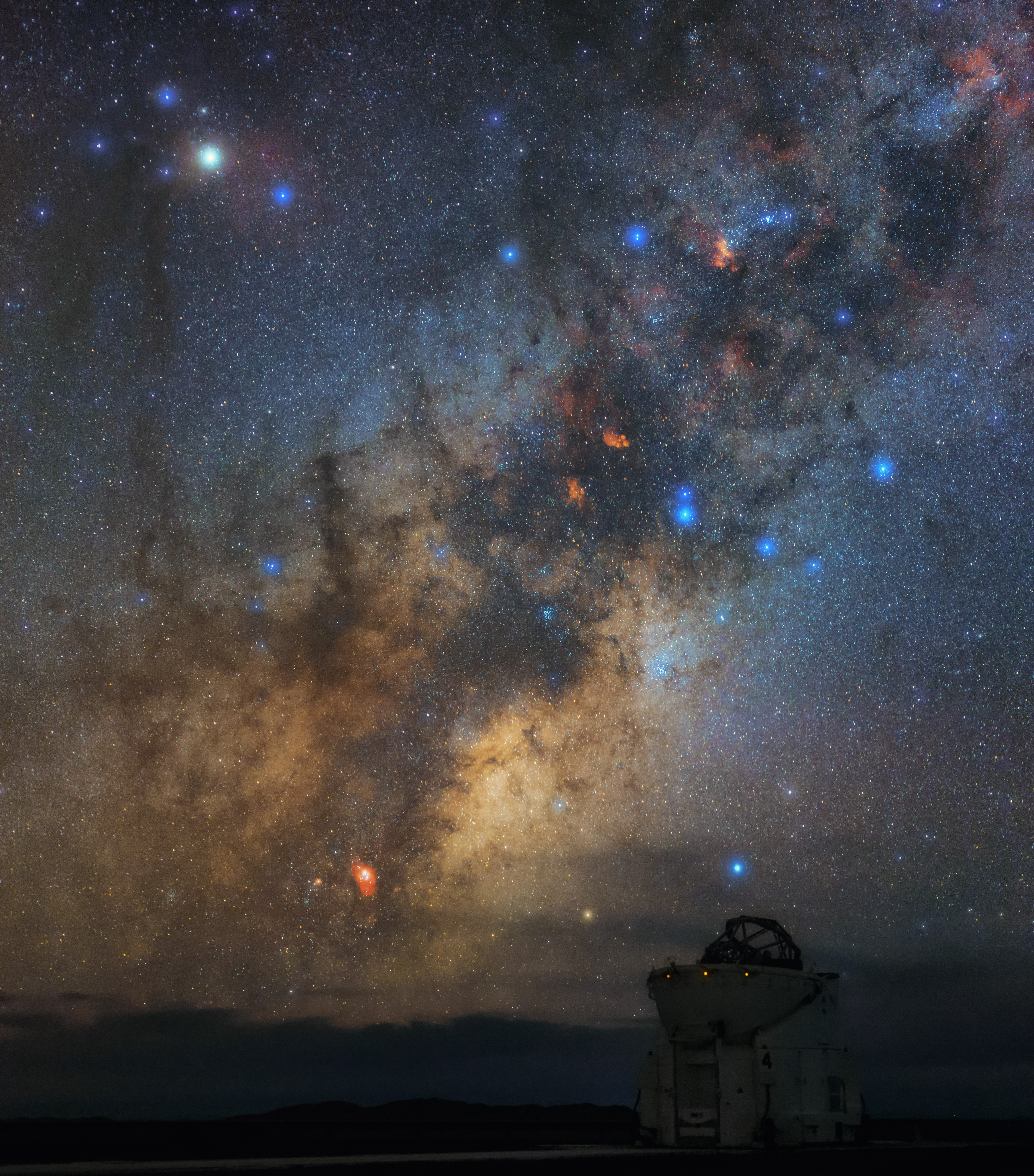 Brilliant blue stars litter the southern sky and the galactic bulge of our home galaxy, the Milky Way, hangs serenely above the horizon in this spectacular shot of ESO’s Paranal Observatory. This image was taken atop Cerro Paranal in Chile, home to ESO’s Very Large Telescope (VLT). In the foreground, the open dome of one of the four 1.8-metre Auxiliary Telescopes can be seen. The four Auxiliary Telescopes can be utilised together, to form the Very Large Telescope Interferometer (VLTI). The plane of the Milky Way is dotted with bright regions of hot gas. The very bright star towards the upper left corner of the frame is Antares — the brightest star in Scorpius and the fifteenth brightest star in the night sky.